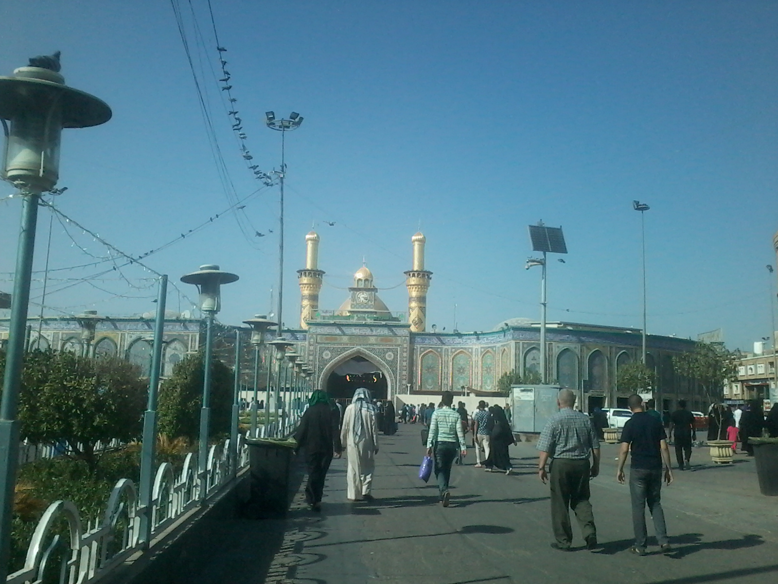 Imam al abbas mosque in Karbala